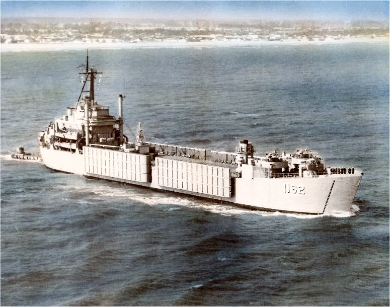 U.S. Navy tank landing ship USS Wahkiakum County (LST-1162)